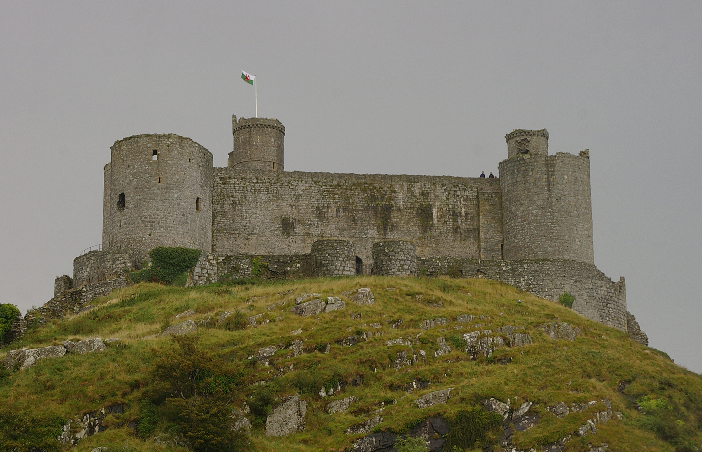 Harlech Castle, viewed from Harlech railway station footbridge.